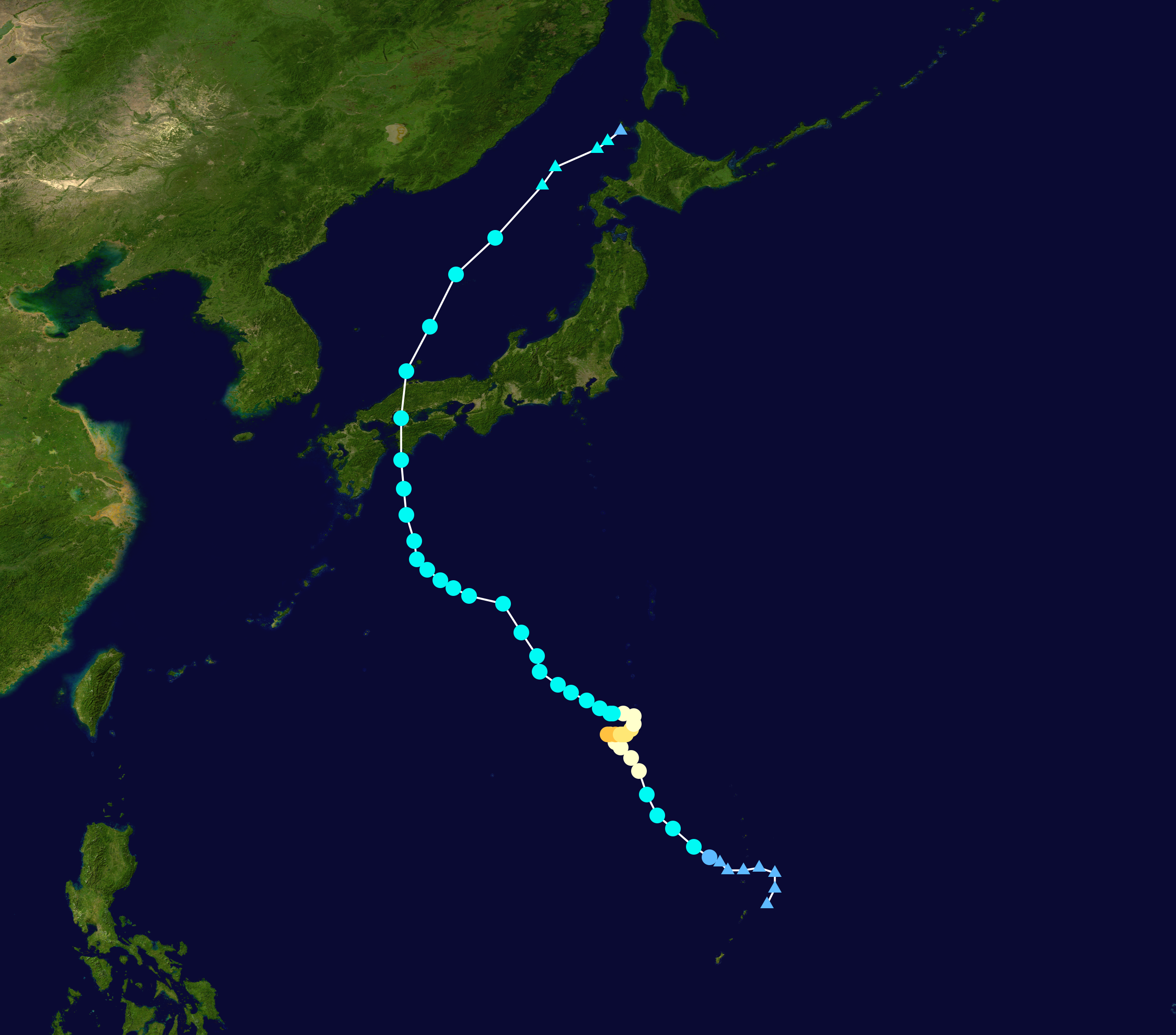 Track map of Typhoon Krosa of the 2019 Pacific typhoon season. The points show the location of the storm at 6-hour intervals. The colour represents the storm's maximum sustained wind speeds as classified in the Saffir–Simpson scale (see below), and the shape of the data points represent the nature of the storm, according to the legend below. Saffir–Simpson scale Tropical depression≤38 mph≤62 km/h Category 3111–129 mph178–208 km/h Tropical storm39–73 mph63–118 km/h Category 4130–156 mph209–251 km/h Category 174–95 mph119–153 km/h Category 5≥157 mph≥252 km/h Category 296–110 mph154–177 km/h Unknown Storm type Tropical cyclone Subtropical cyclone Extratropical cyclone / Remnant low / Tropical disturbance / Monsoon depression